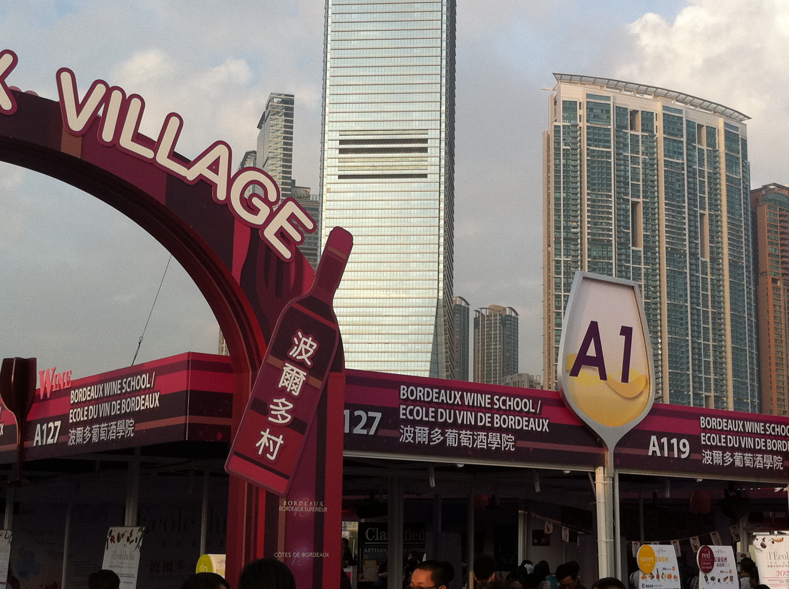 Hong Kong Wine and Dine Festival, 2012 香港美酒佳餚巡禮, West Kowloon Waterfront Promenade, Hong Kong